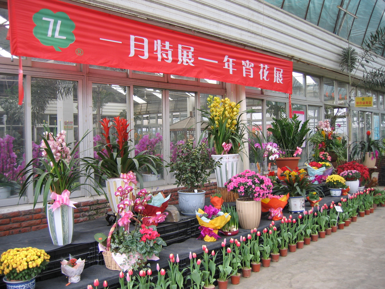 陈村花市 Flower market, Chencun, Foshan, Guangdong, China